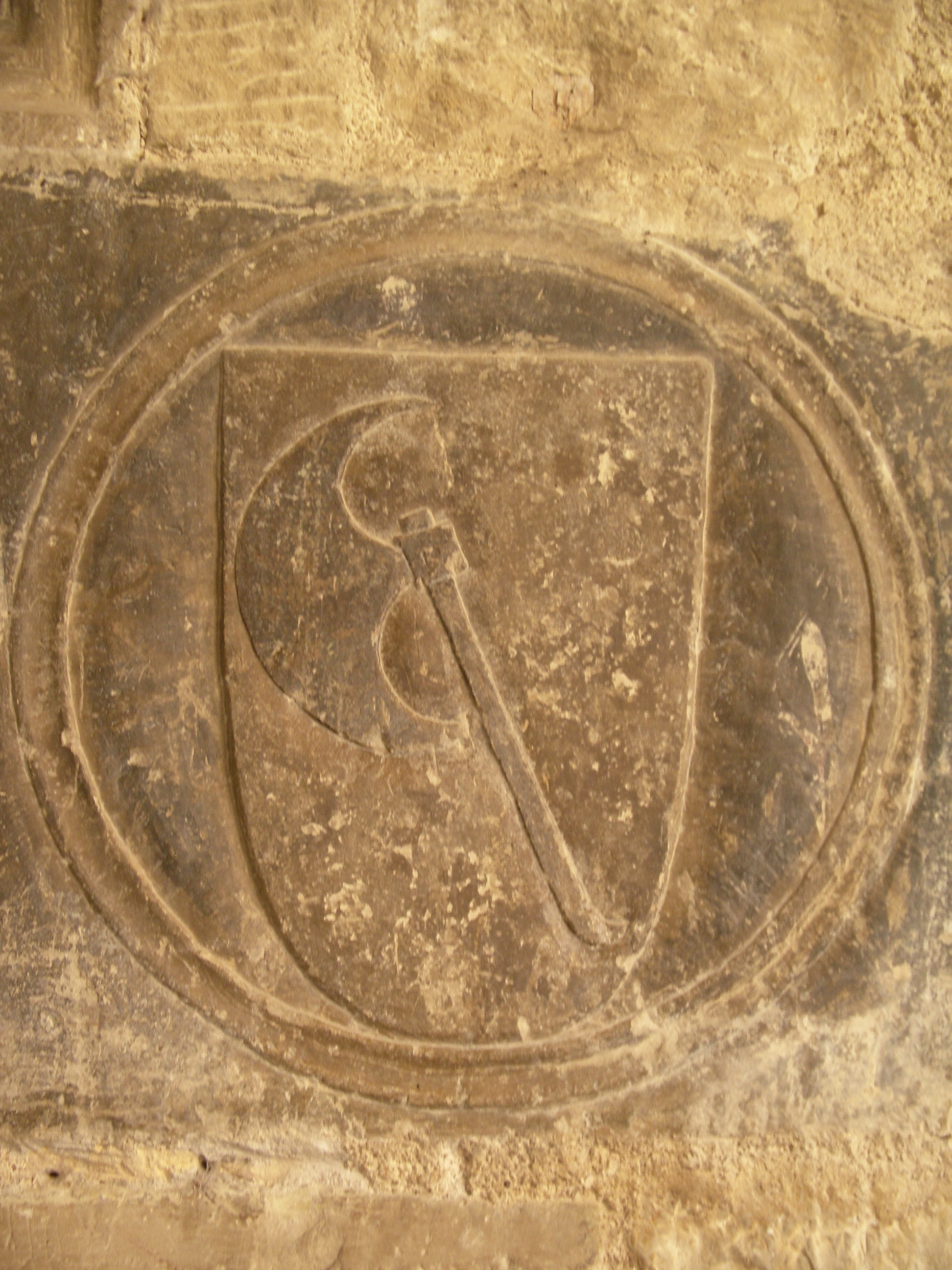 Emblem of the Orde de l'Atxa, from a stone relief in the cloister of the Tortosa cathedral, 14th cent.